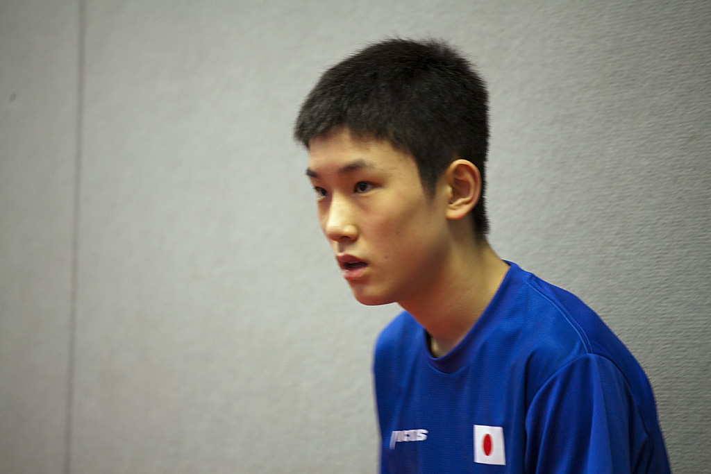 ITTF World Tour 2017 German Open, Magdeburg, Germany, 7 Nov 2017 - 12 Nov 2017, Harimoto Tomokazu.